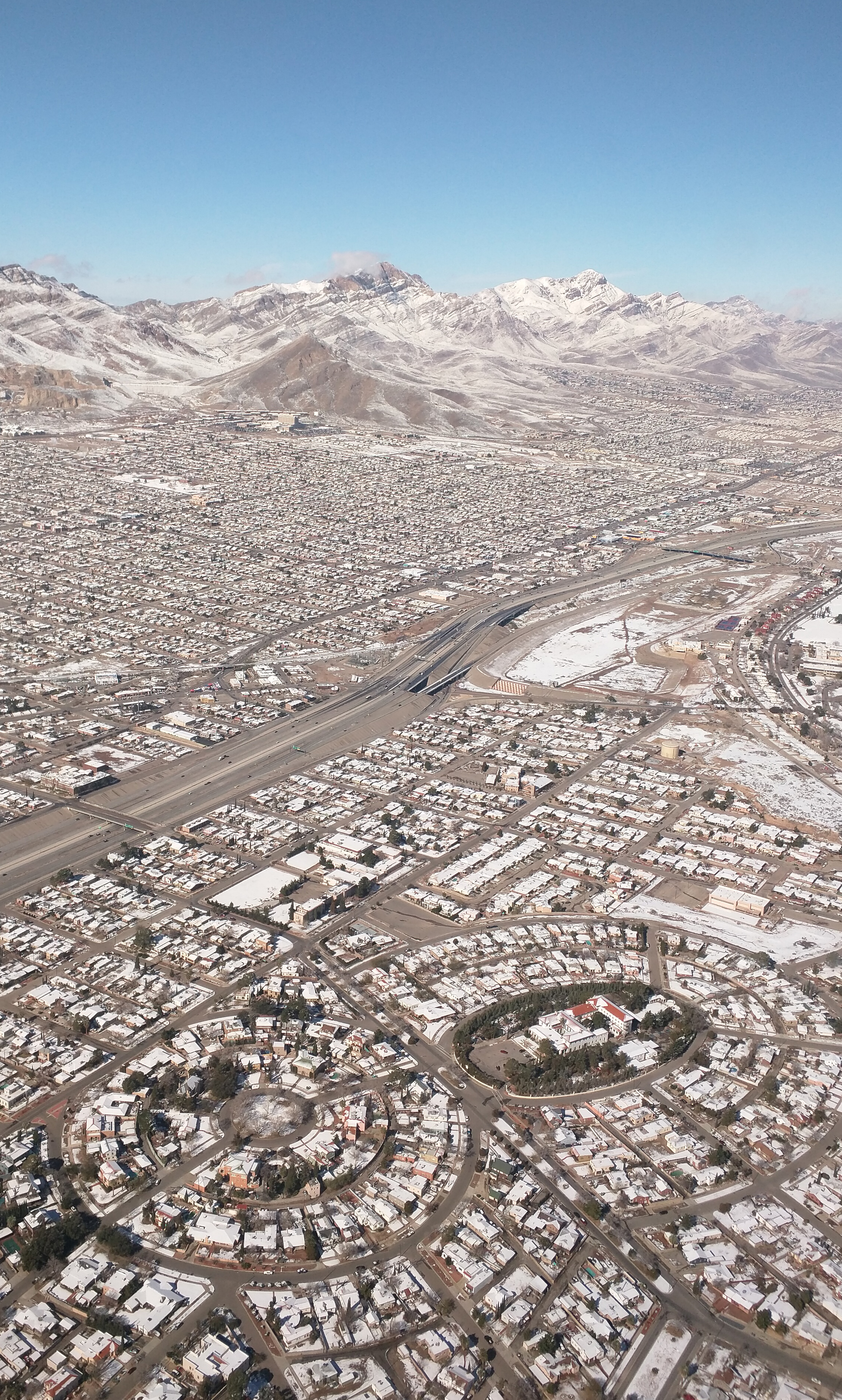 El Paso's historic Austin Terrace neighborhood, with Saint Anthony's Seminary (in the oval) and Cumberland Circle.